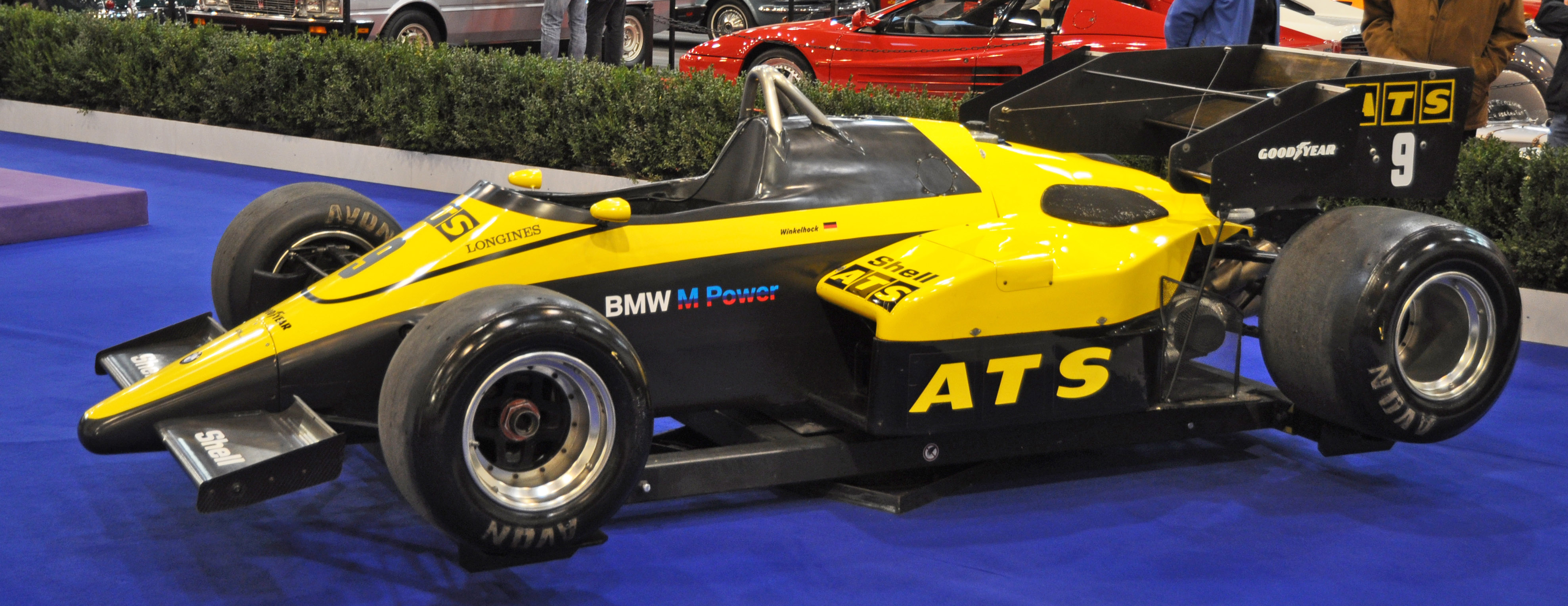 ATS D6-BMW (1983) at Essen Motor Show 2015